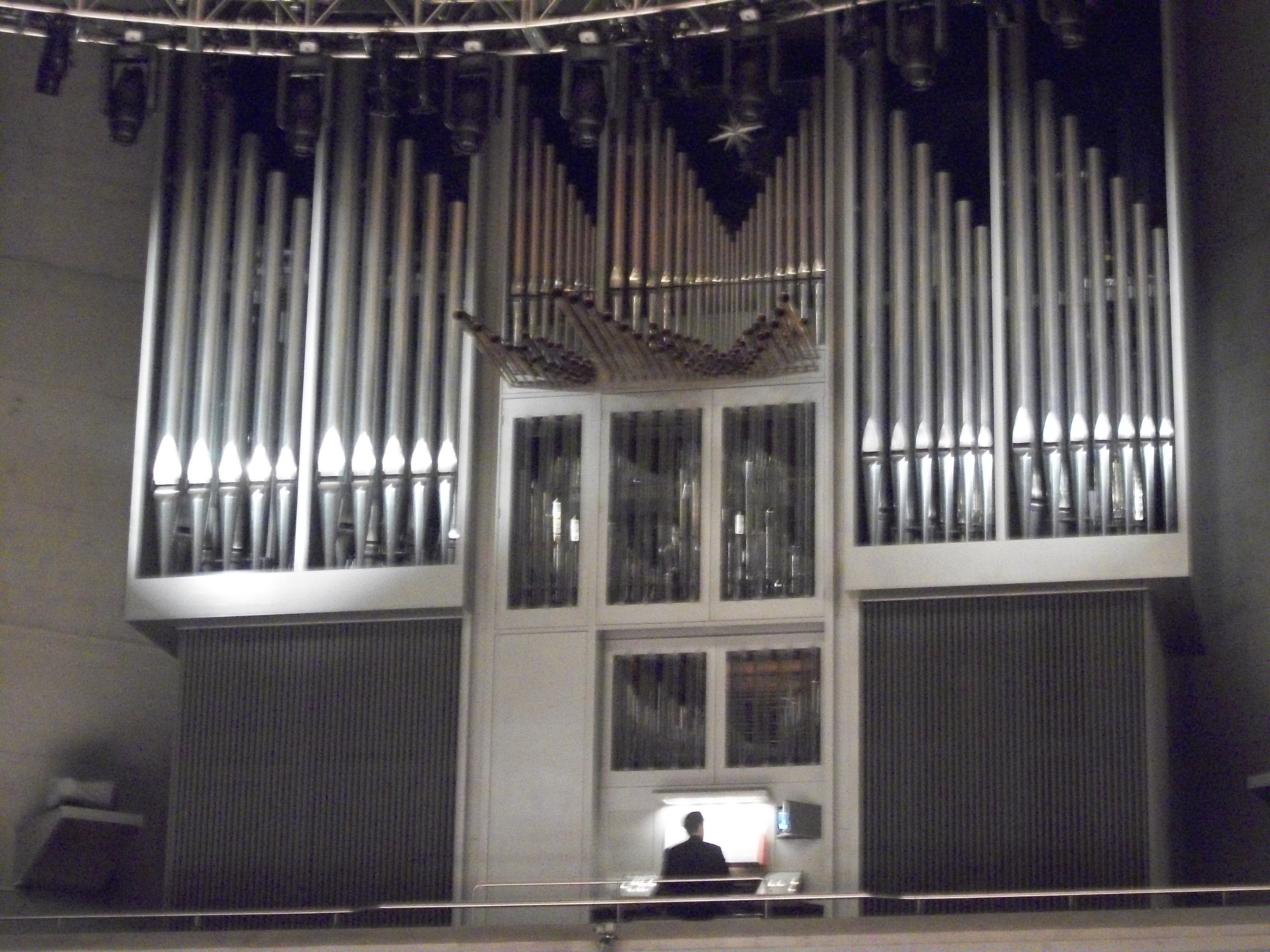 Organ at the Roy Thomson Hall (Toronto)